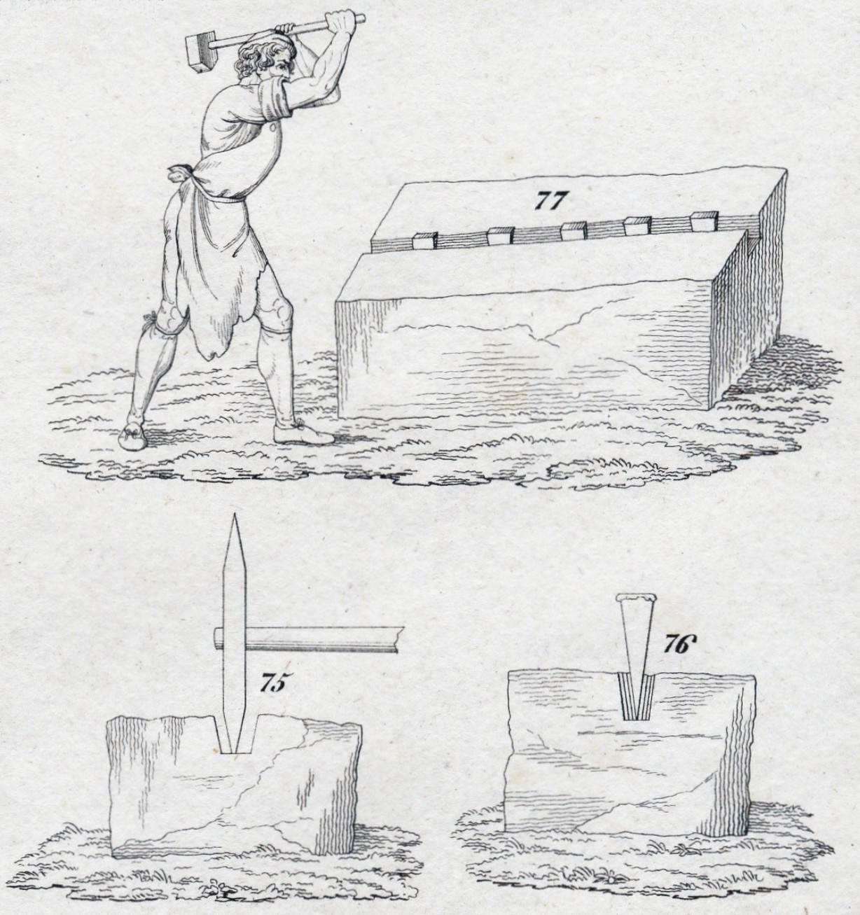 quarryman at work (copper engraving 1833)